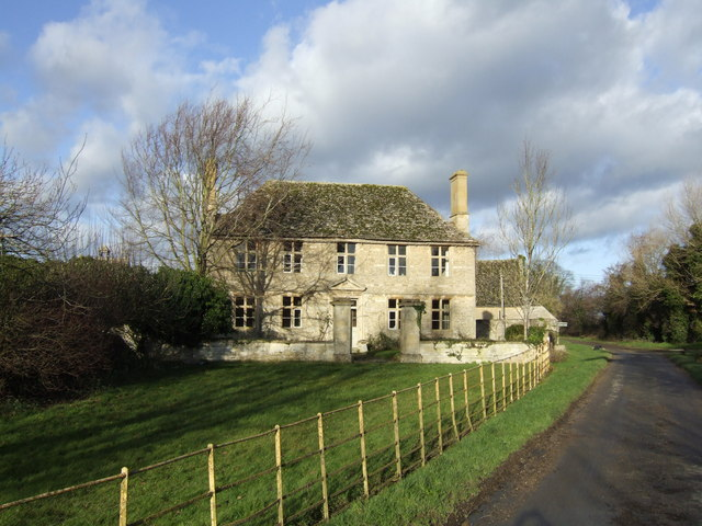 Manor Farmhouse, Kelmscott, Oxfordshire, built about 1700